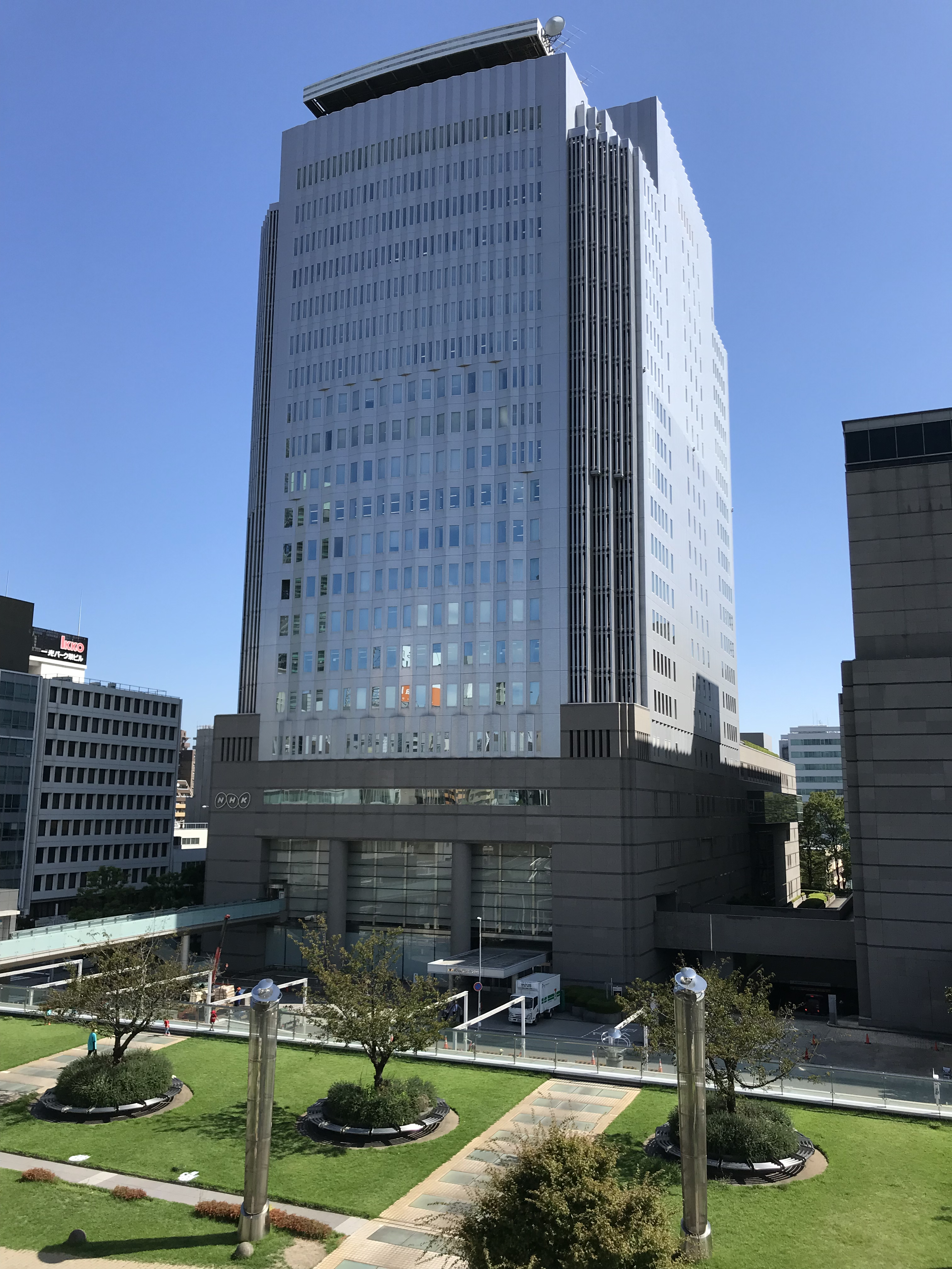 NHK Nagoya Broadcasting Center Building seen from the observatory of Oasis 21, Spaceship-Aqua.